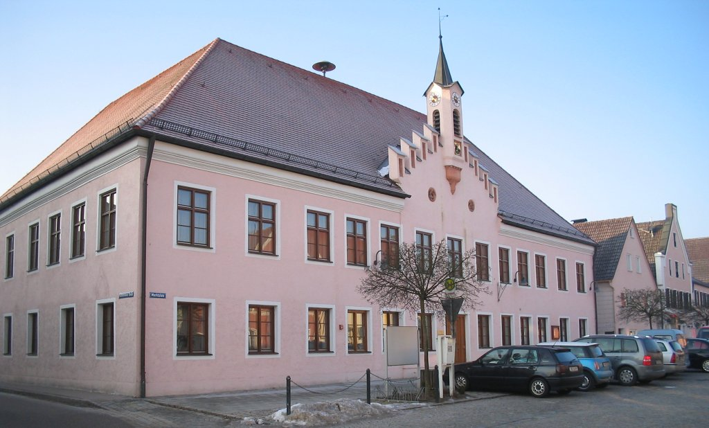 Town hall of Hohenwart, Bavaria, Germany